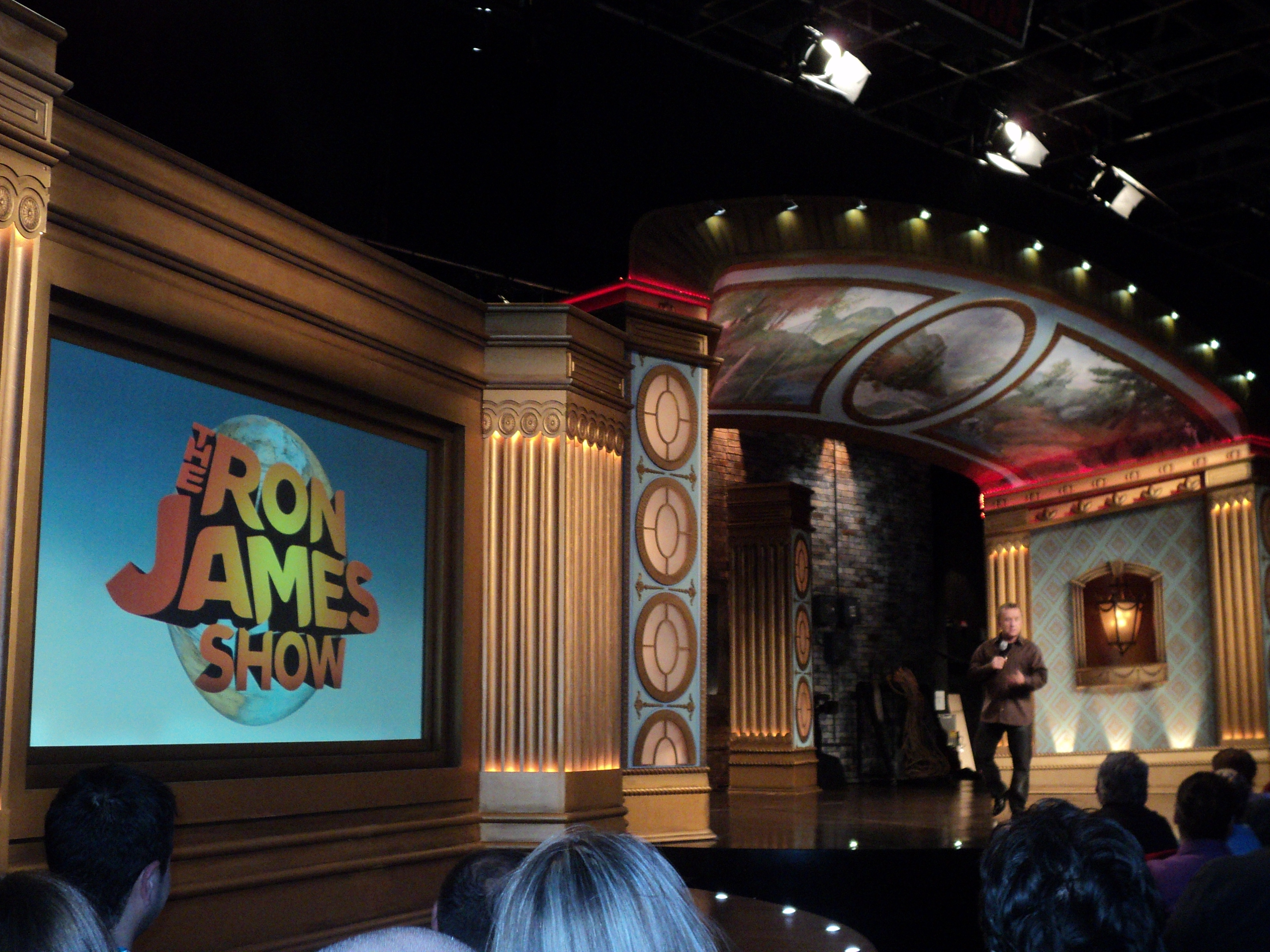 Wide shot of Ron James on set during a taping of the Ron James Show, taken at the CBC building in downtown Toronto. This was the first of a two episode taping we attended.